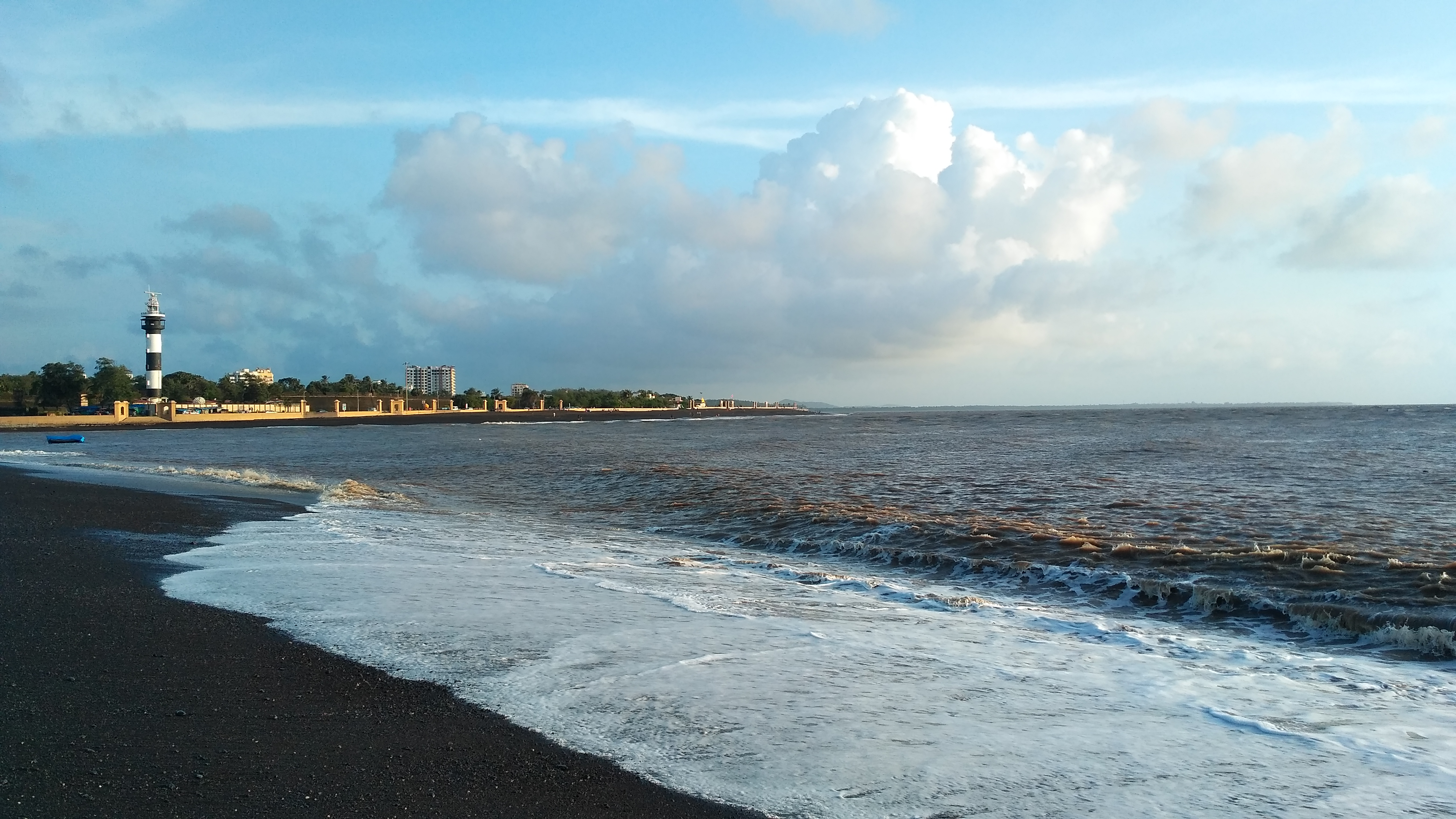 Beautiful beach of daman and pic took